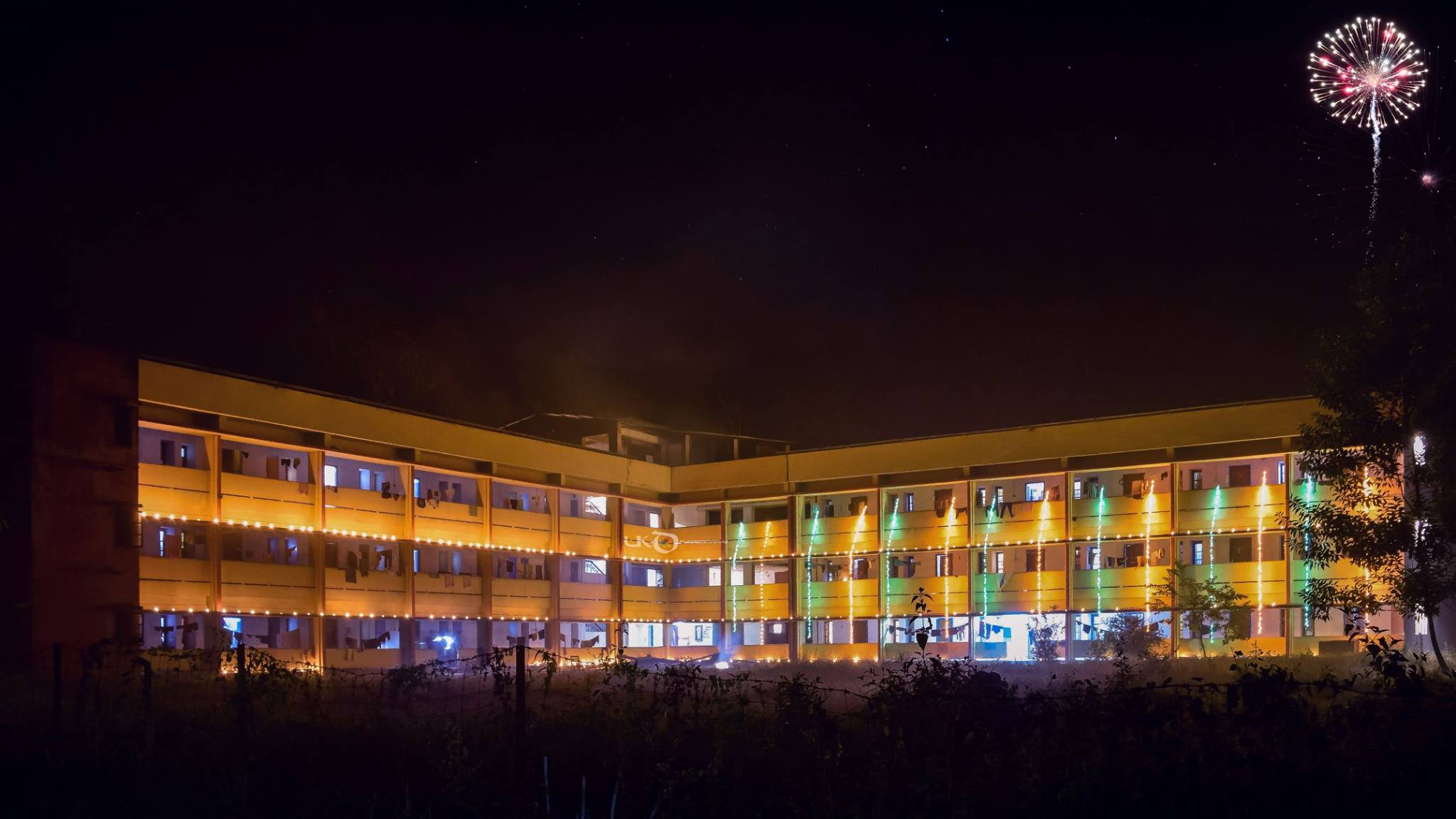 Jorbim Boys Hostel 1 during Diwali